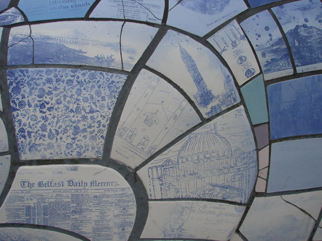 Detail from the "Big Fish" (or "Salmon of Knowledge") statue in Belfast, Northern Ireland. Its 'scales' are made up of many enamelled sections with images ranging from buildings, through to old newspaper cuttings to modern-day pictures by local schoolchildren.